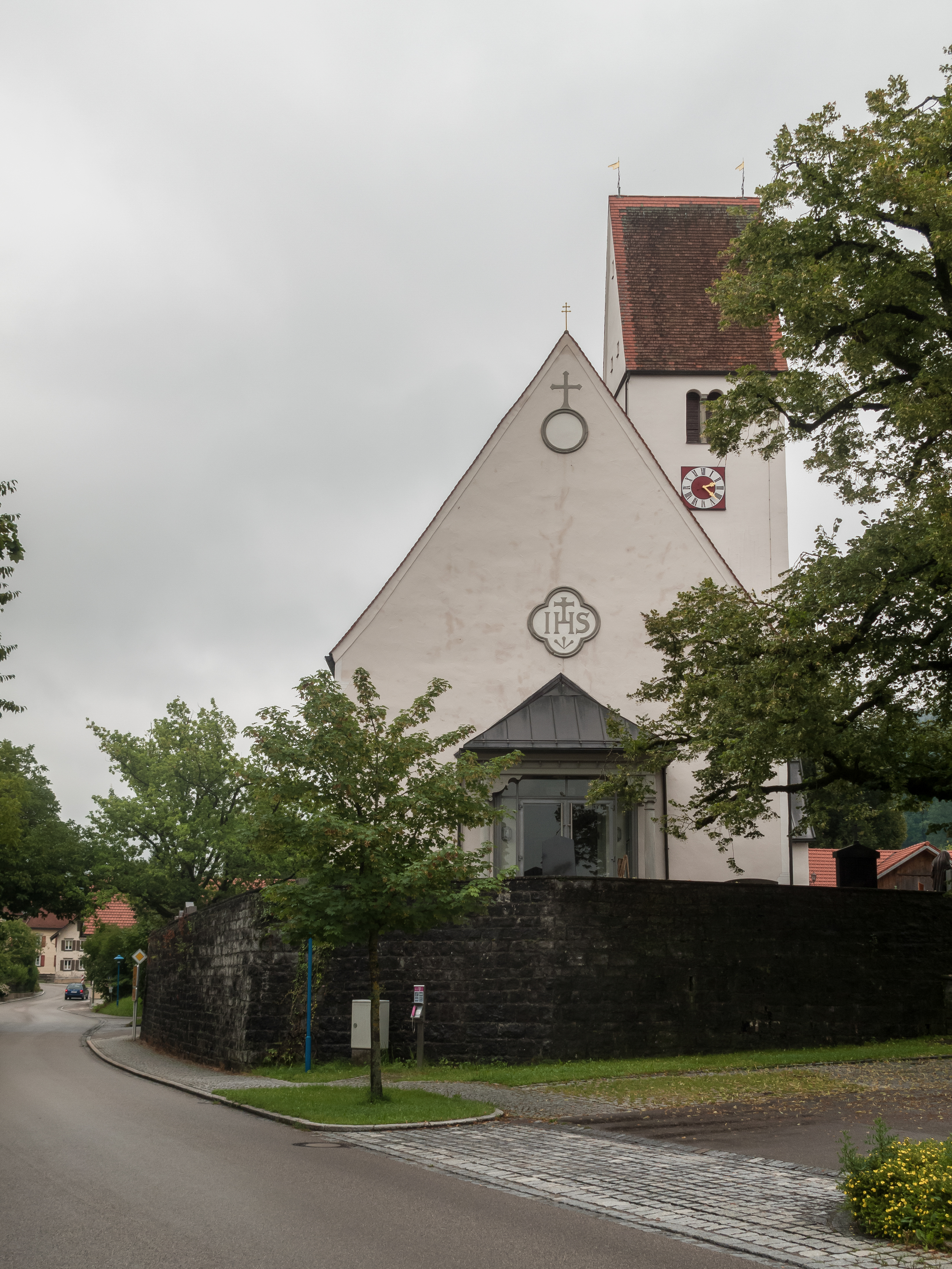 Grünenbach, church; die katholische Pfarrkirche Sankt Otmar This is a photograph of an architectural monument. =D-7-76-113-1